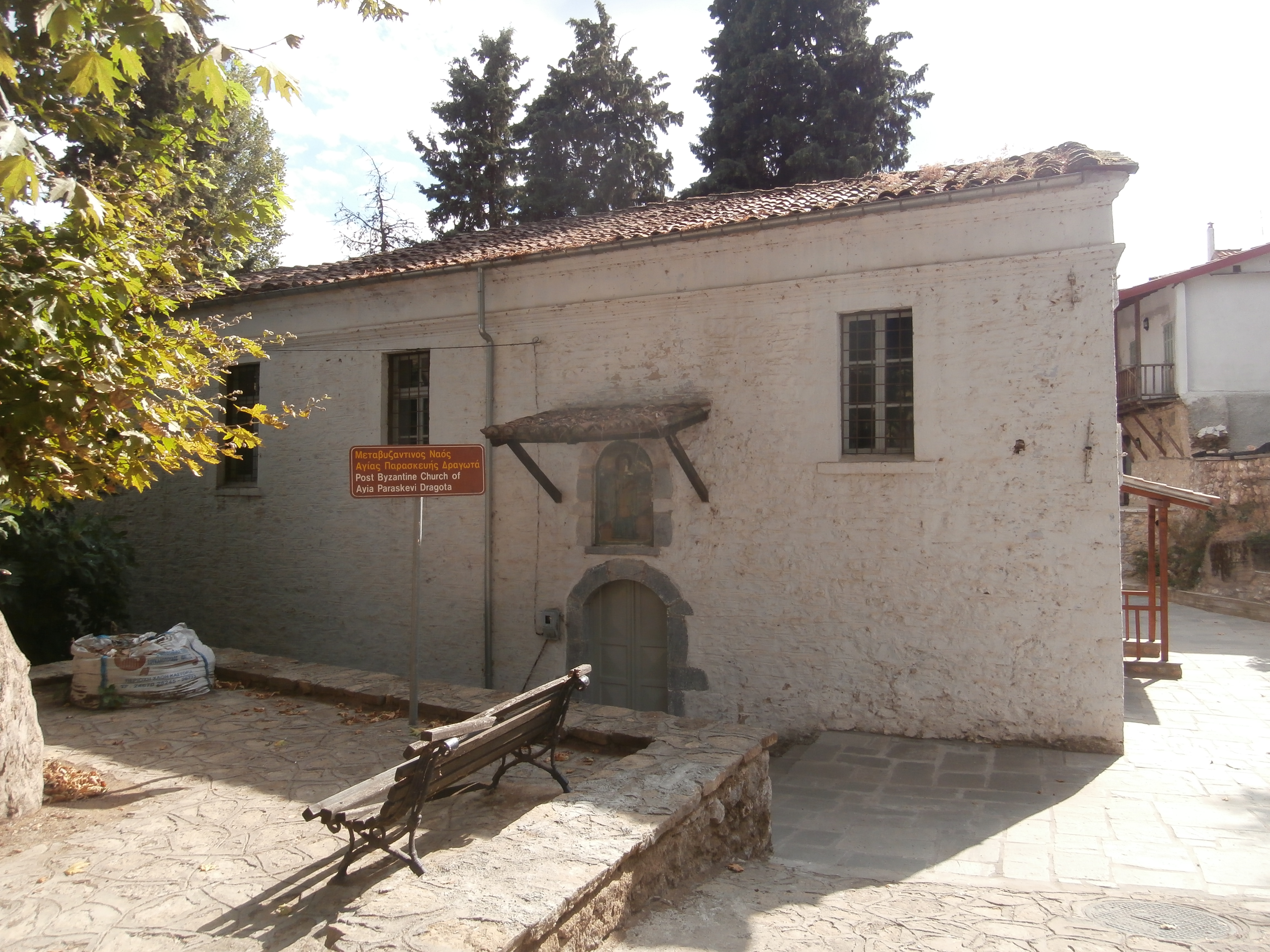 Church of Ayia Paraskevi Dragota in Kastoria